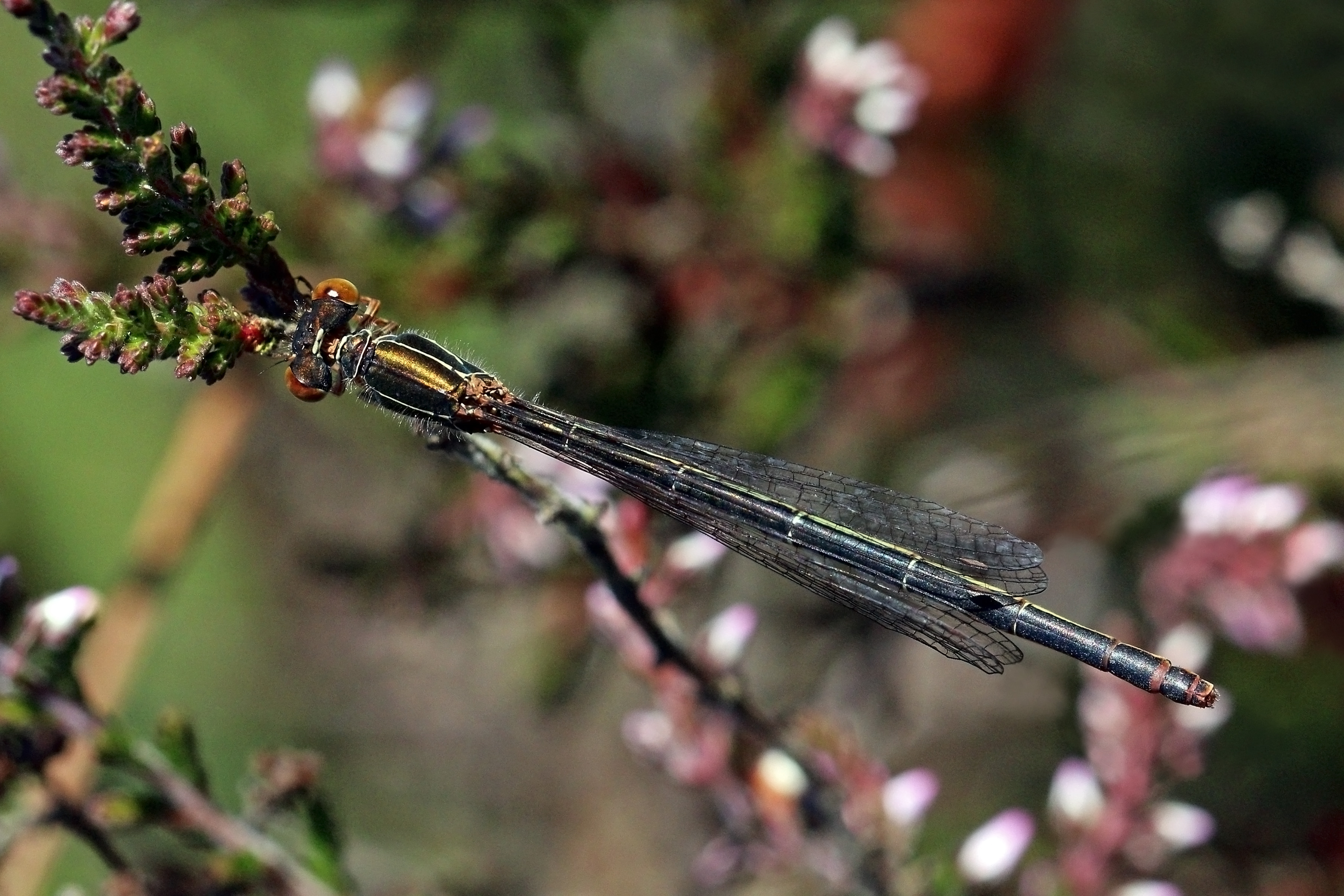 Small red damselfly (Ceriagrion tenellum) female form melanogastrum, Crockford Stream, Hampshire